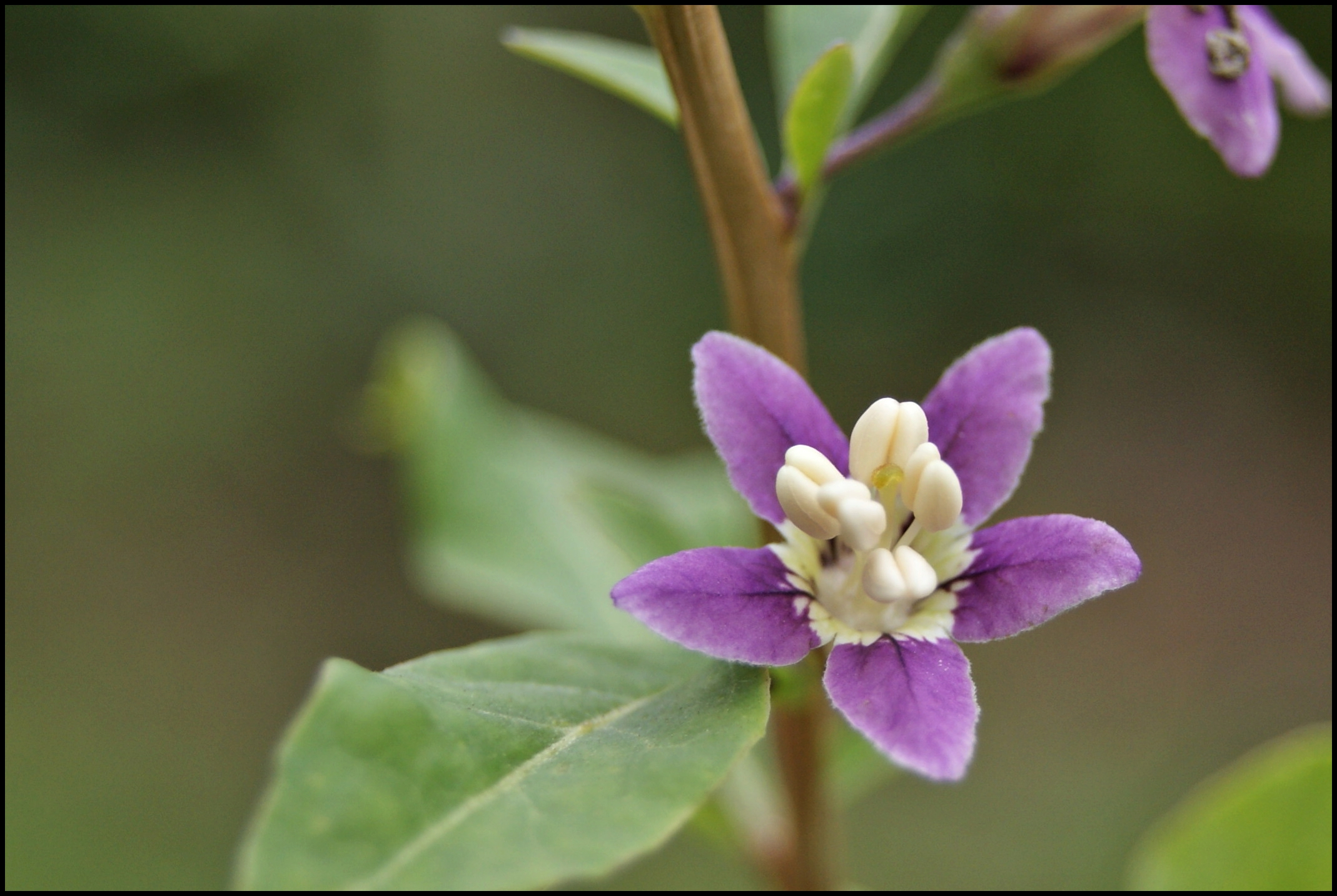 Lycium barbarum